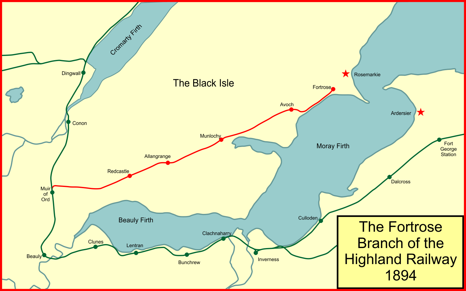 System map of the Fortrose railway branch line Scotland 1894